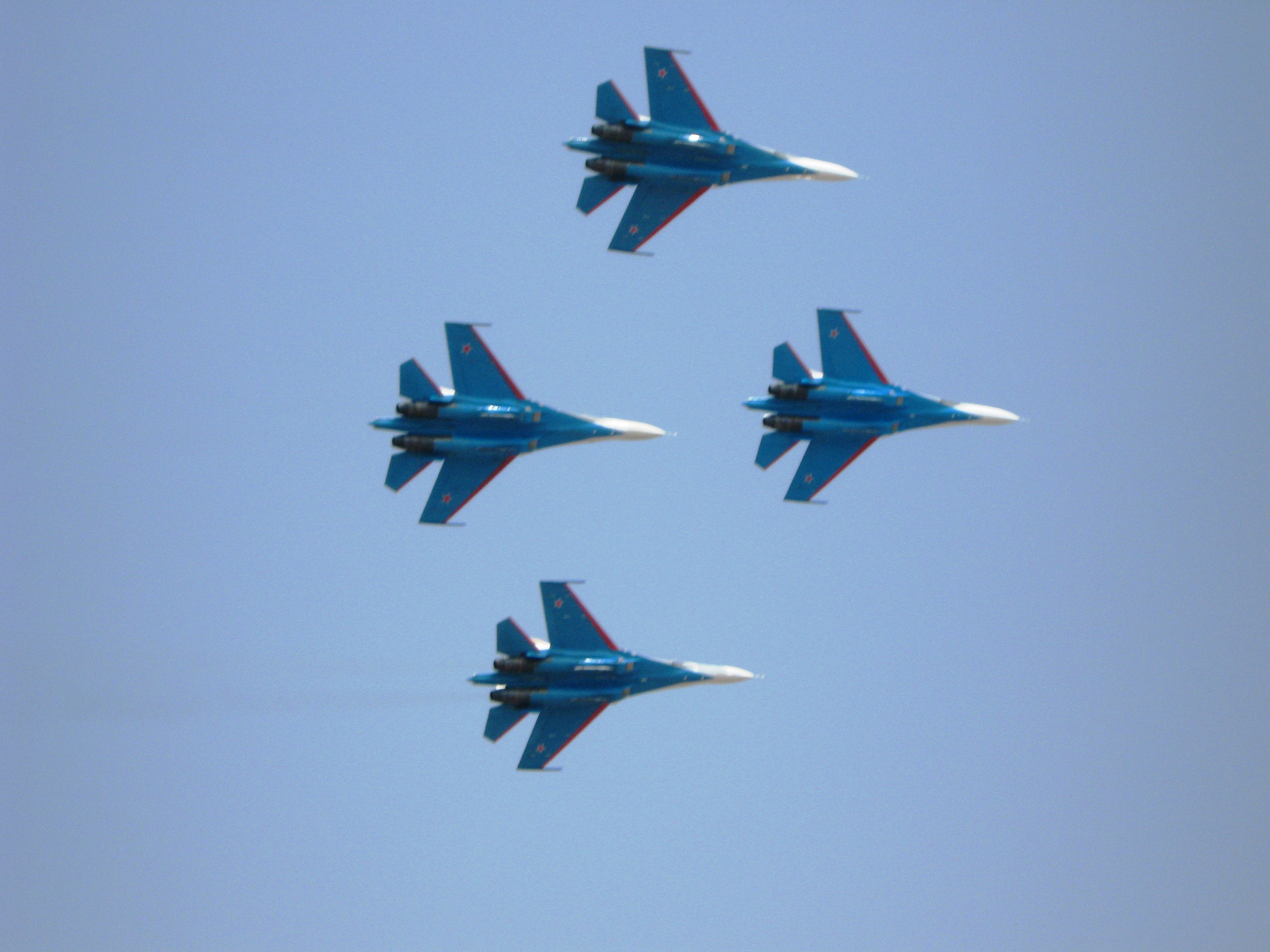 Russian Knights at Aero India 13'